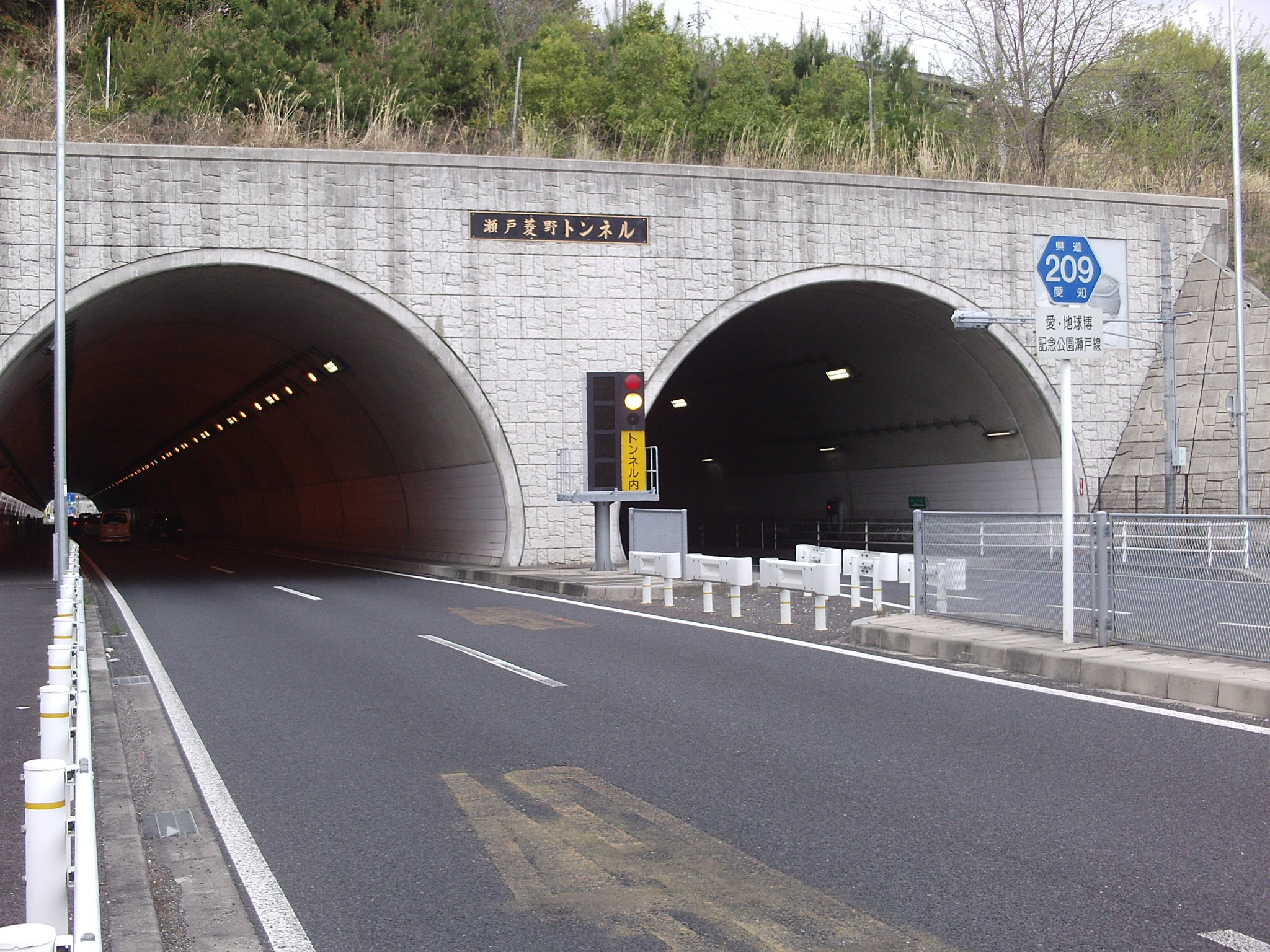 Aichi prefectural road No.209 in Minasecho, Seto, Aichi.